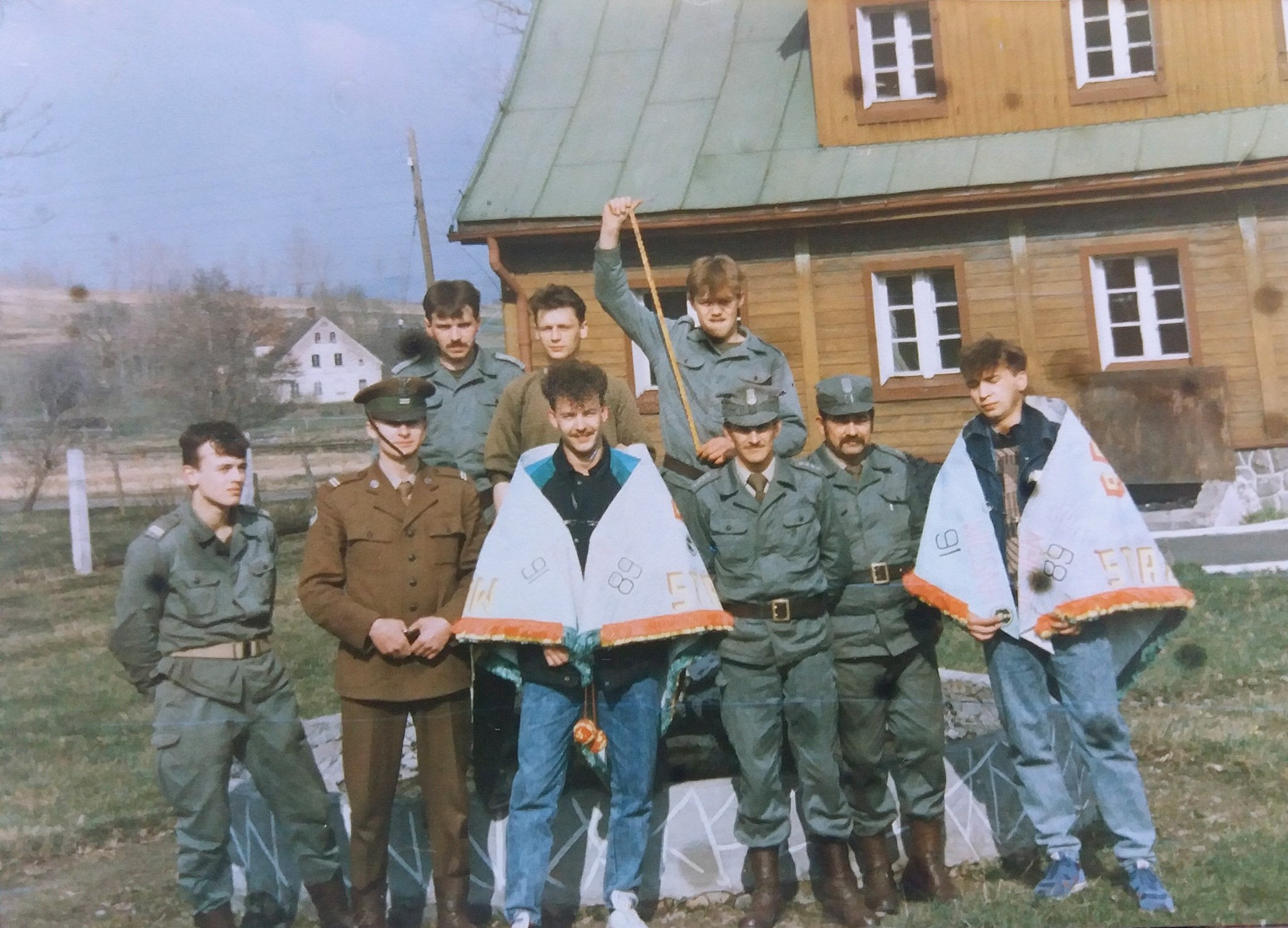 Border Protection Forces in Niedamirów